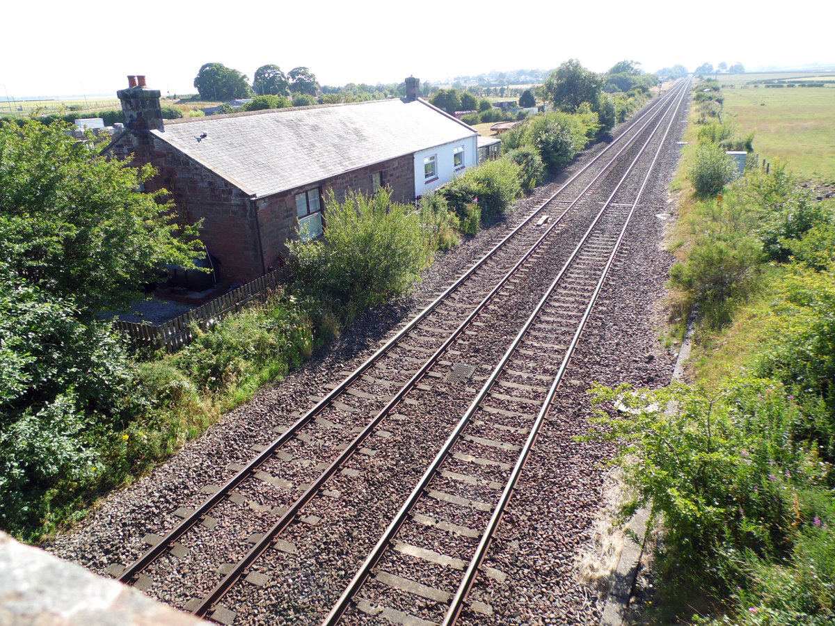 Photograph taken whilst visiting the area in July of 2018.